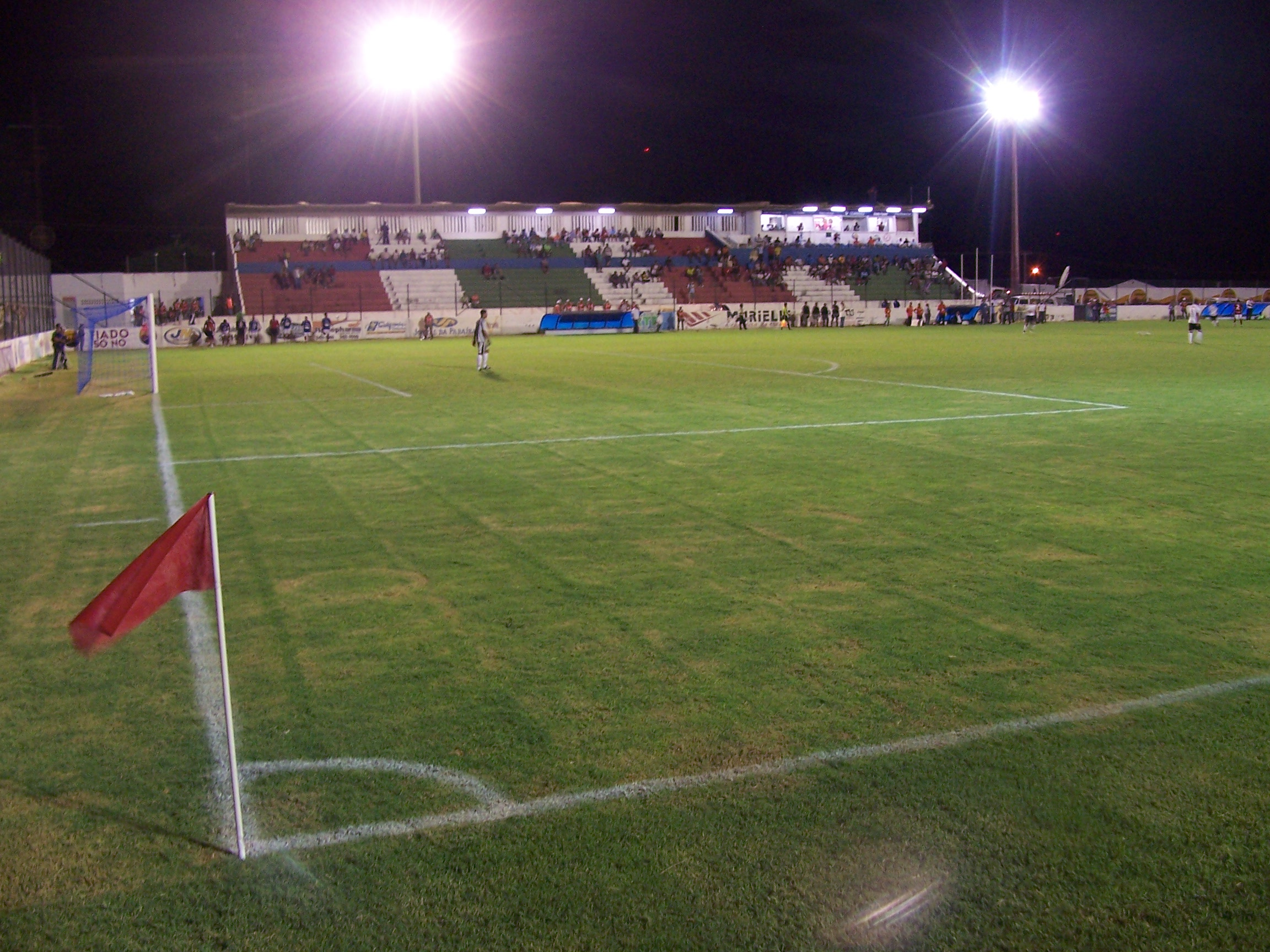 Stadium José Cavalcante, Patos - Paraíba - Brazil